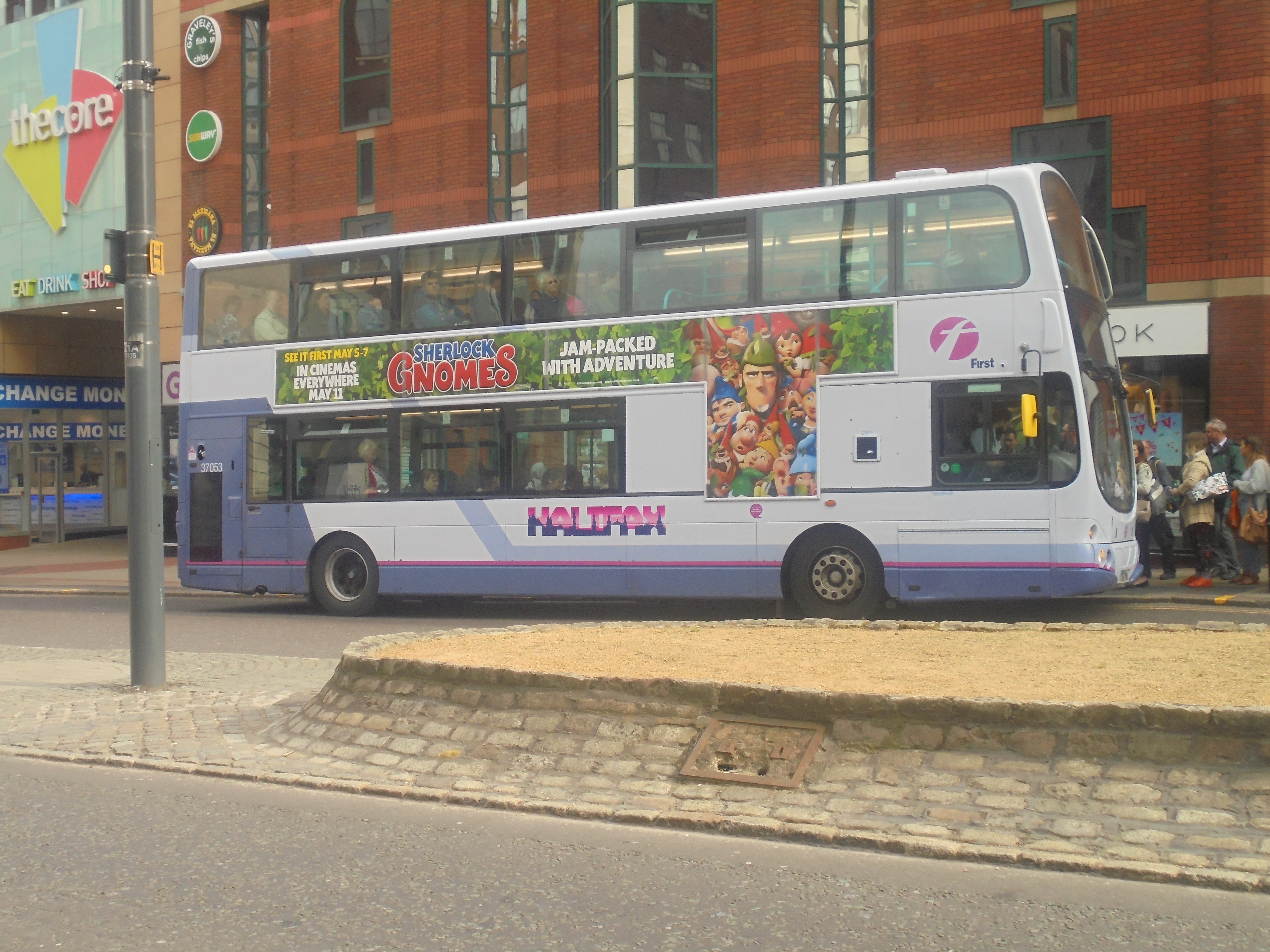 First Halifax bus on the Headrow, Leeds, West Yorkshire. Taken around midday on Thursday the 17th of May 2018.